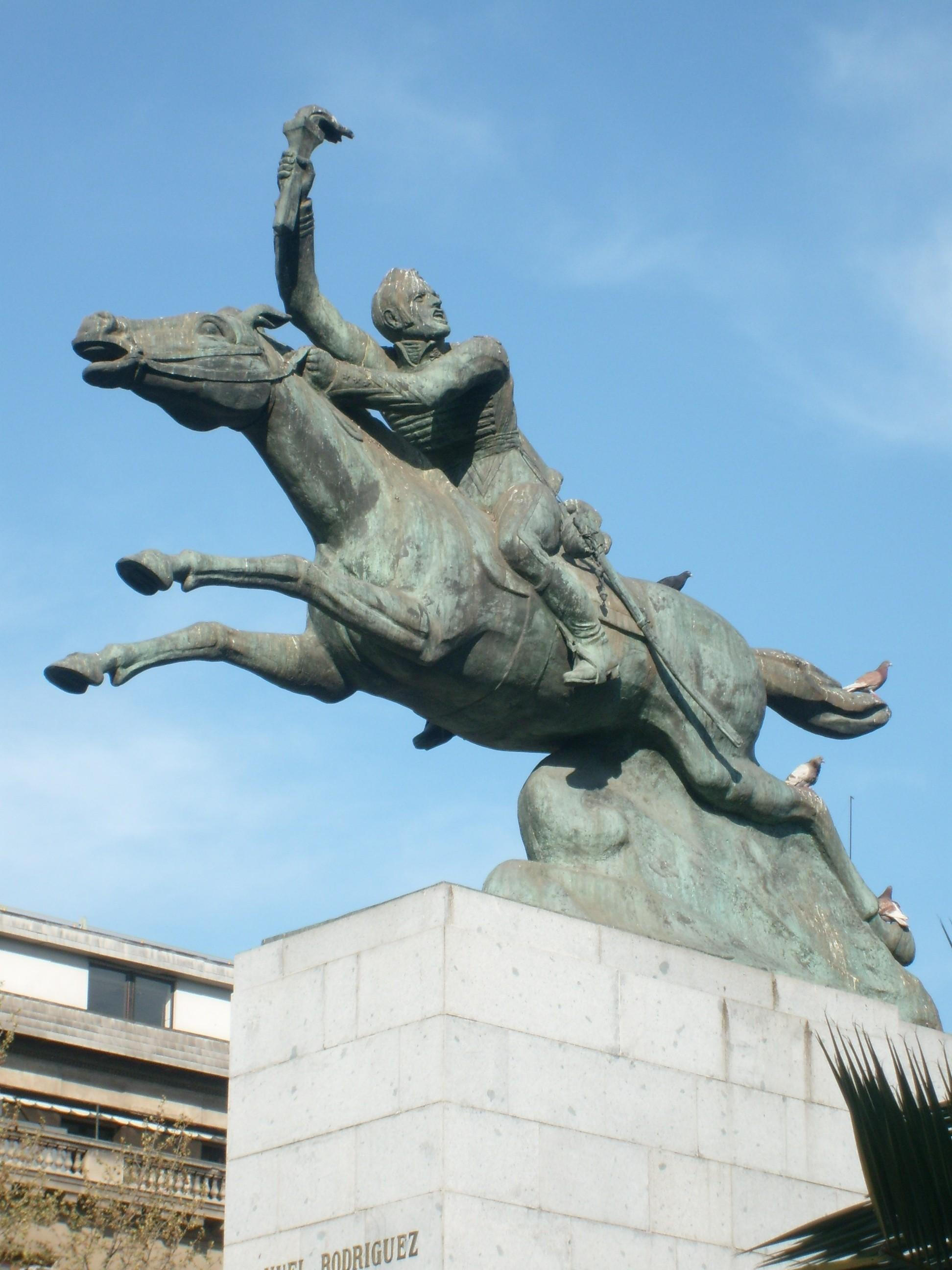 Manuel Rodriguez, a Chilean Hero. Statue located at Bustamante Park in Santiago, Chile